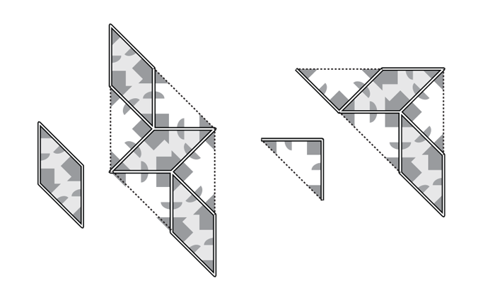 Ammann A5 substitution rules -- someone please verify as there is room for error!